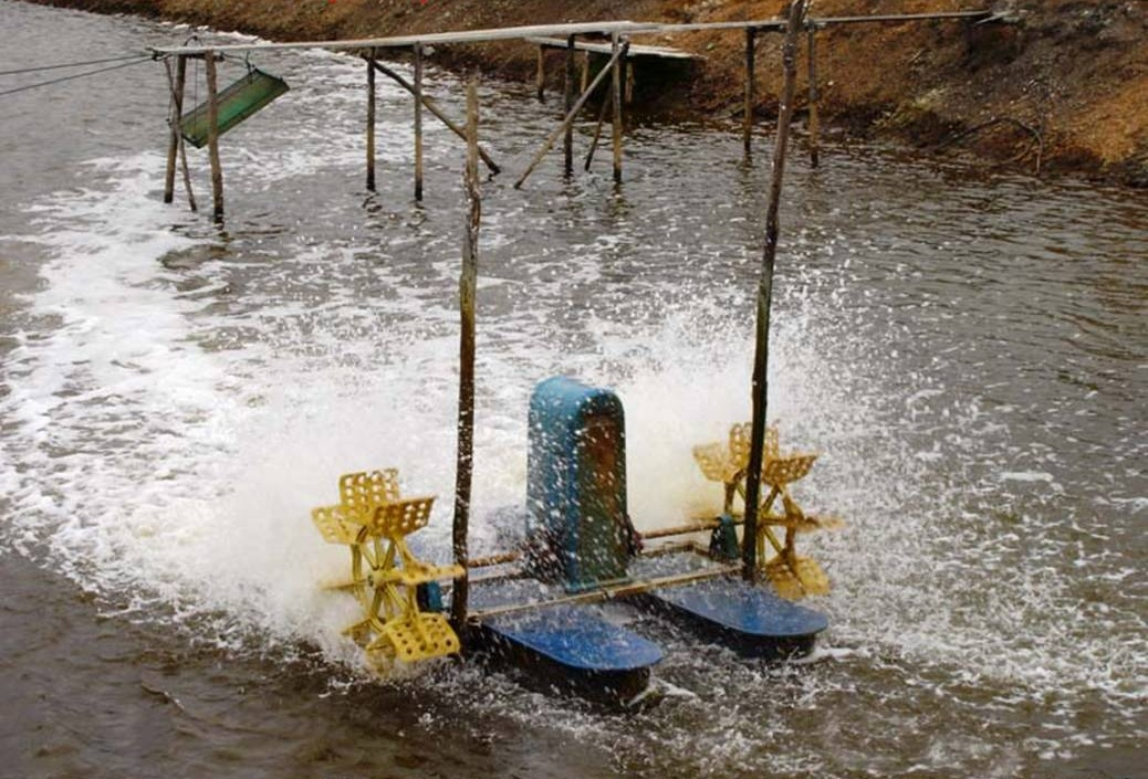 A 1 horsepower paddlewheel aereator used in a shrimp pond in Indonesia.